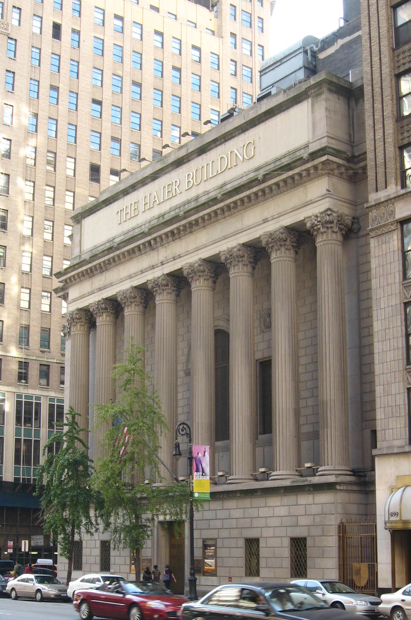 Looking southwest across 6th Avenue at 985 Sixth Avenue, back side of Haier Building, former Greenwich Savings Bank, in Manhattan on a cloudy afternoon. See also brighter Image:Haier 985 6th bright jeh.JPG